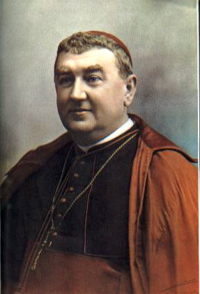 Portrait of bishop Manuel González García, bishop of Málaga and Palencia